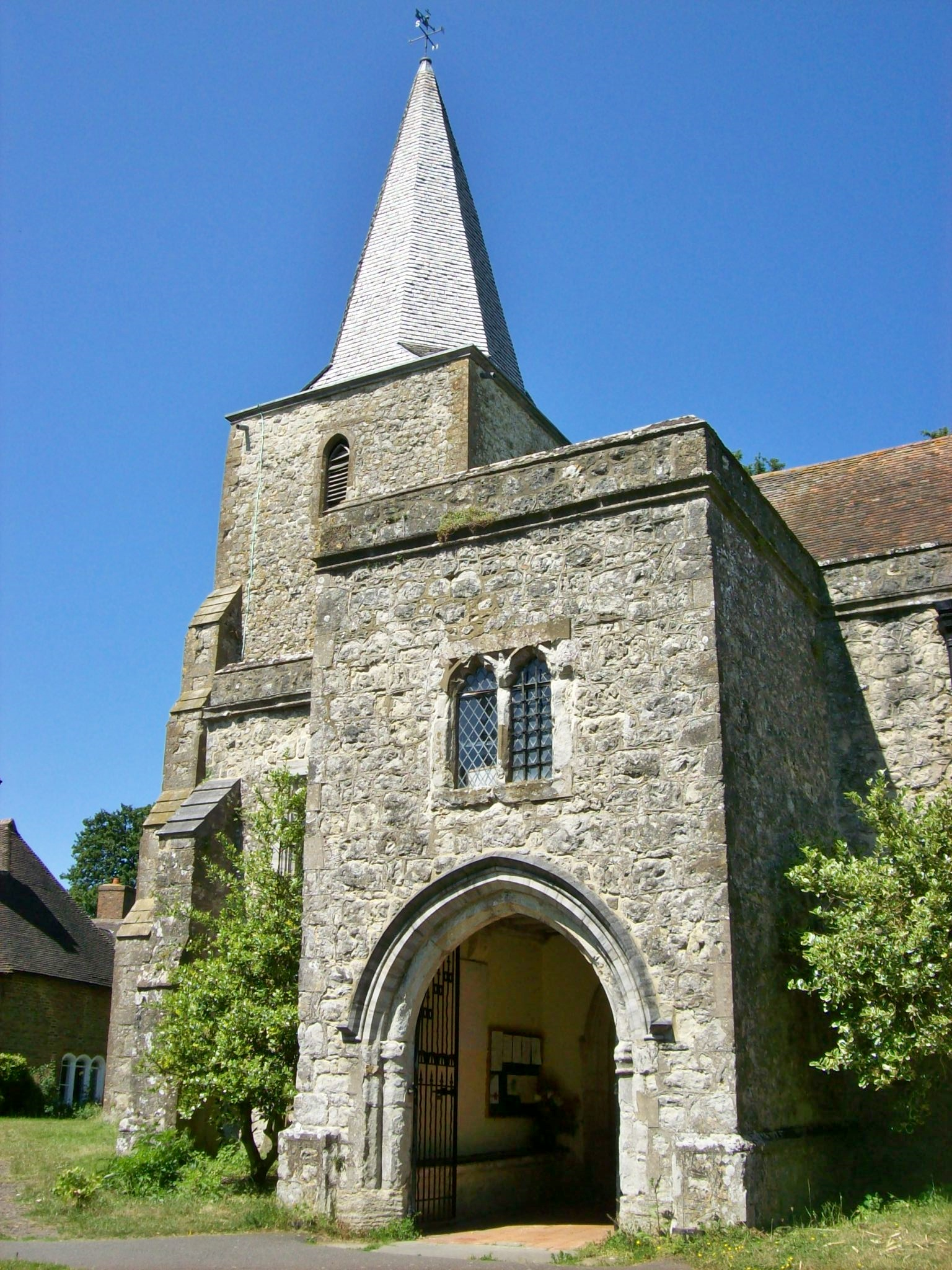 St Nicholas, Pluckley, porch and spire